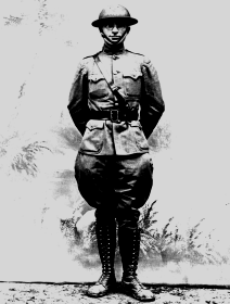 Postcard photo of Harry S. Truman taken in France during World War I. Noted on the reverse of the postcard "Given to John A. Hatfield in France in 1918 - returned to Harry S. Truman in January, 1962." Donor: John A. Hatfield